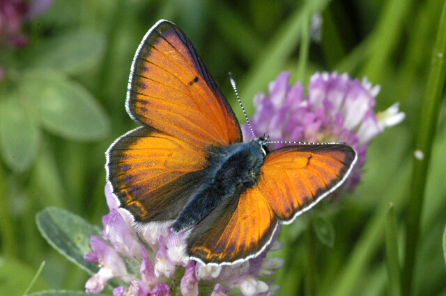 Picture taken in Commanster, Belgian High Ardennes . Species: Lycaena hippothoe